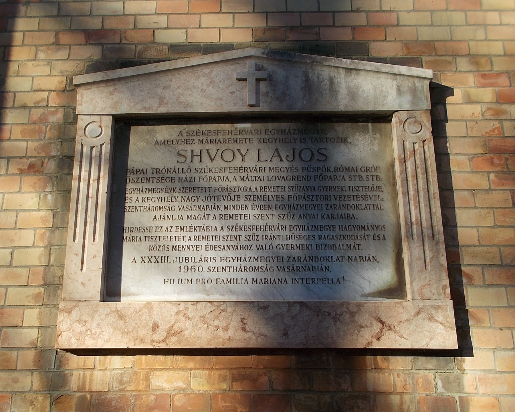 Bishop Lajos Shvoy plaque and dozens of Chistian ex-voto plaques on the south facade of the Church of the Nativity of the Virgin Mary in Máriaremete pilgrimage site, Máriaremete neighbourhood, Budapest District II.